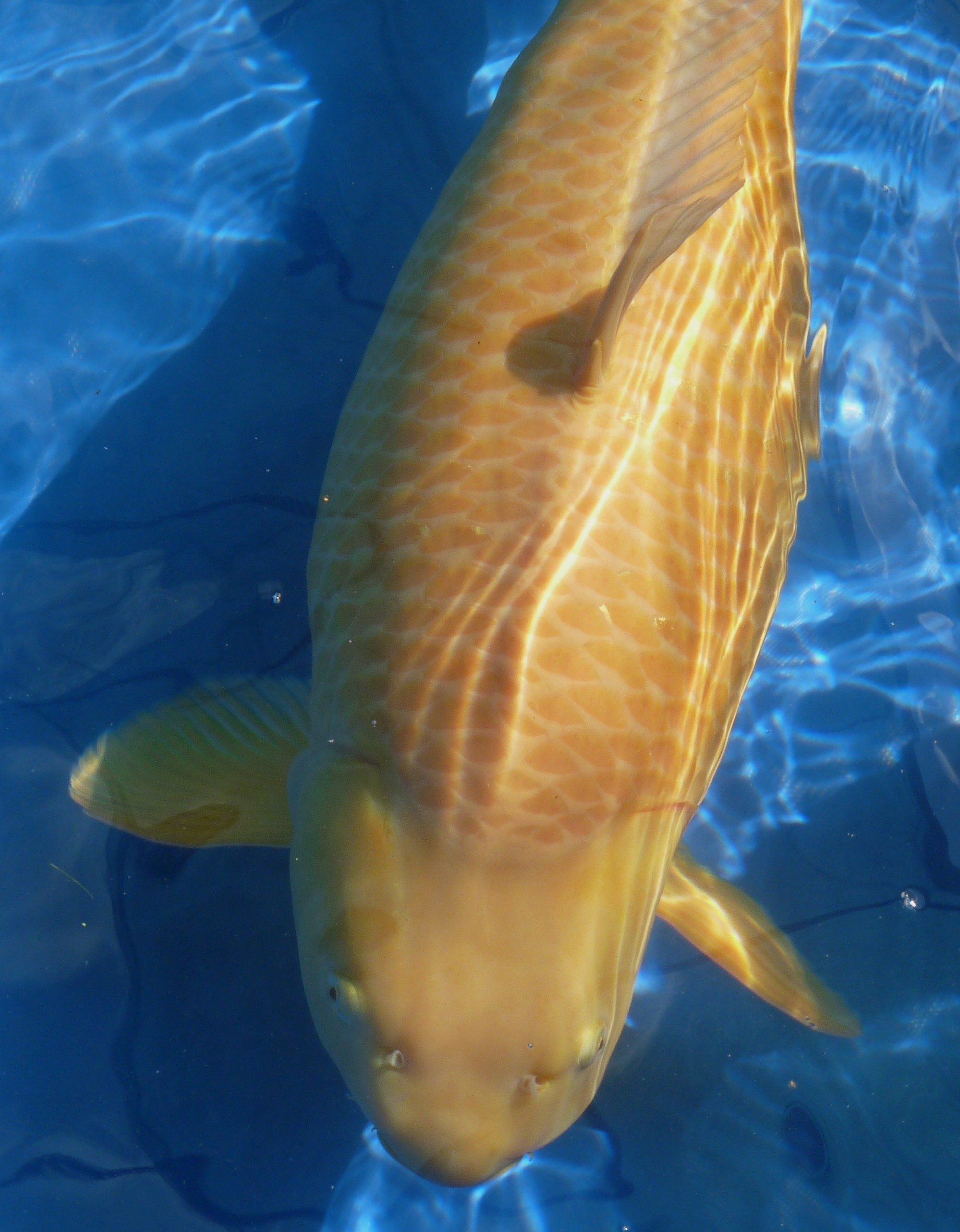 Karashigoi